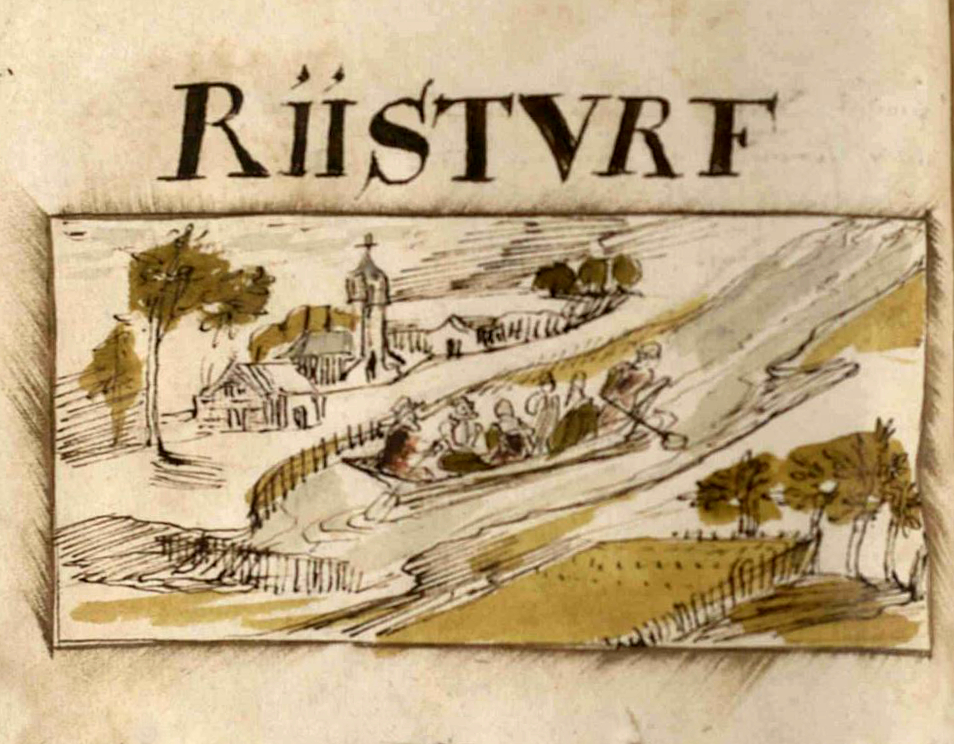 "Riisturf" (today: Reisdorf, Luxembourg) by Jean Bertels, ~1597